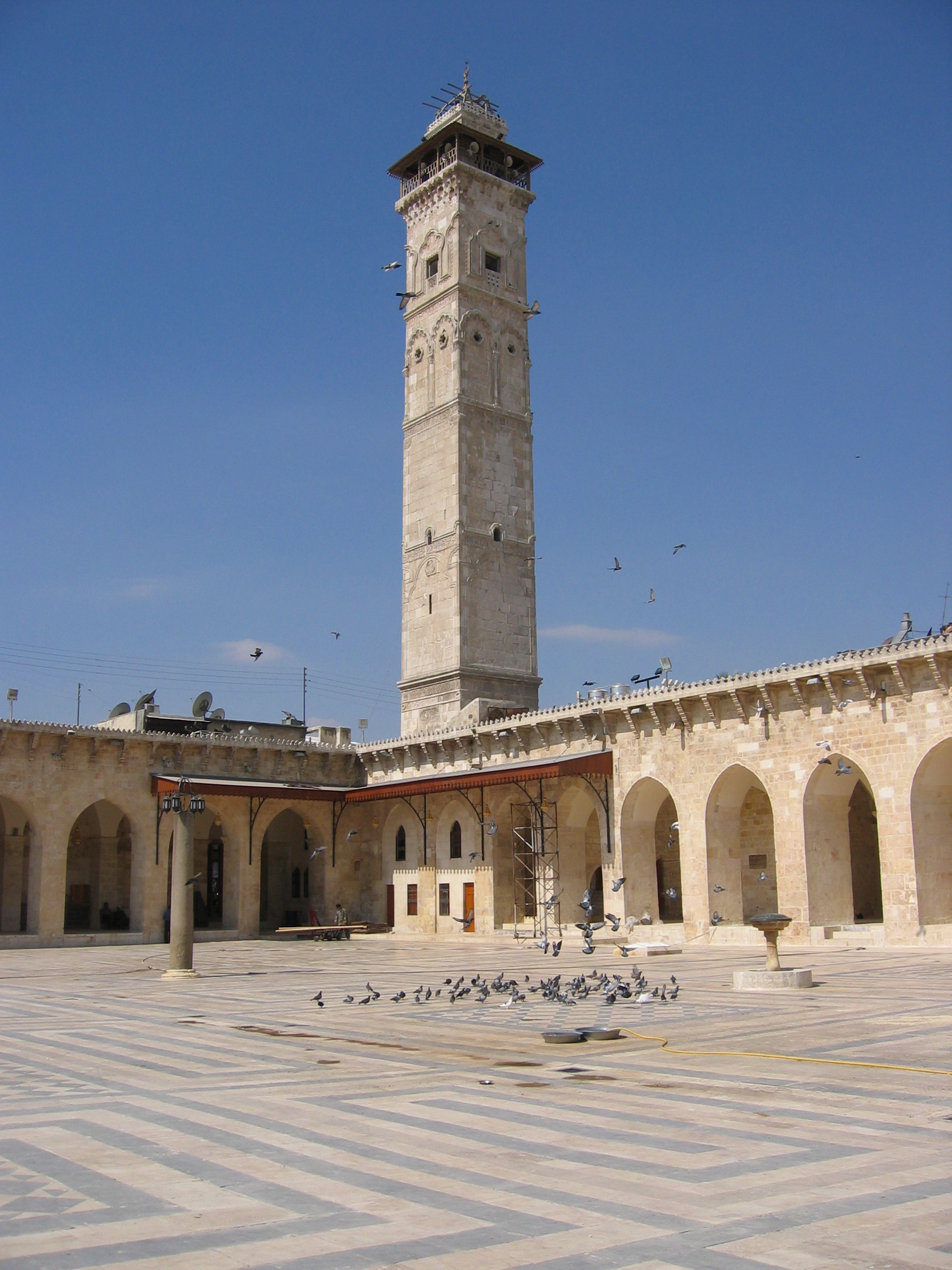 Minaret of the Omayad Mosque of Aleppo Syria